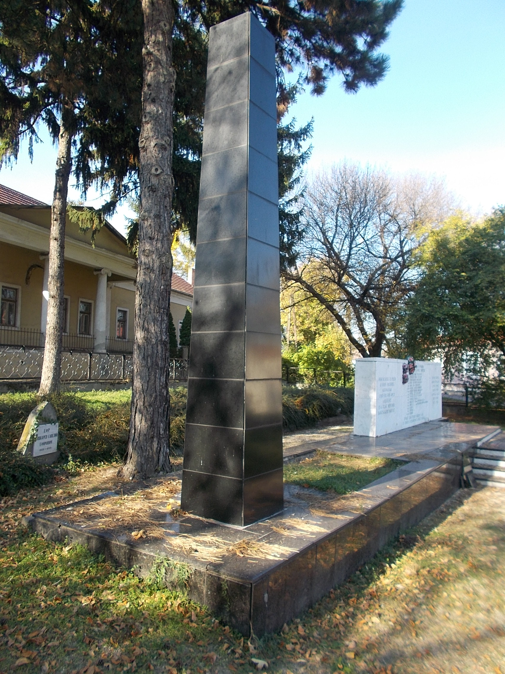 Rudnyánszky-Mondbach-Frankl mansion and mill. Listed. Built in 1780 (or before), rebuilt in c. 1830. And before of its is the Heroes' memorial or Soviet heroes monument by Tibor Weiner (1957 granite obelisk, limestione base, wrought iron fence) and cemetery - 35-37 Magyar Street, Óváros neighborhood (Oldtown), Dunaújváros, Fejér County, Hungary.